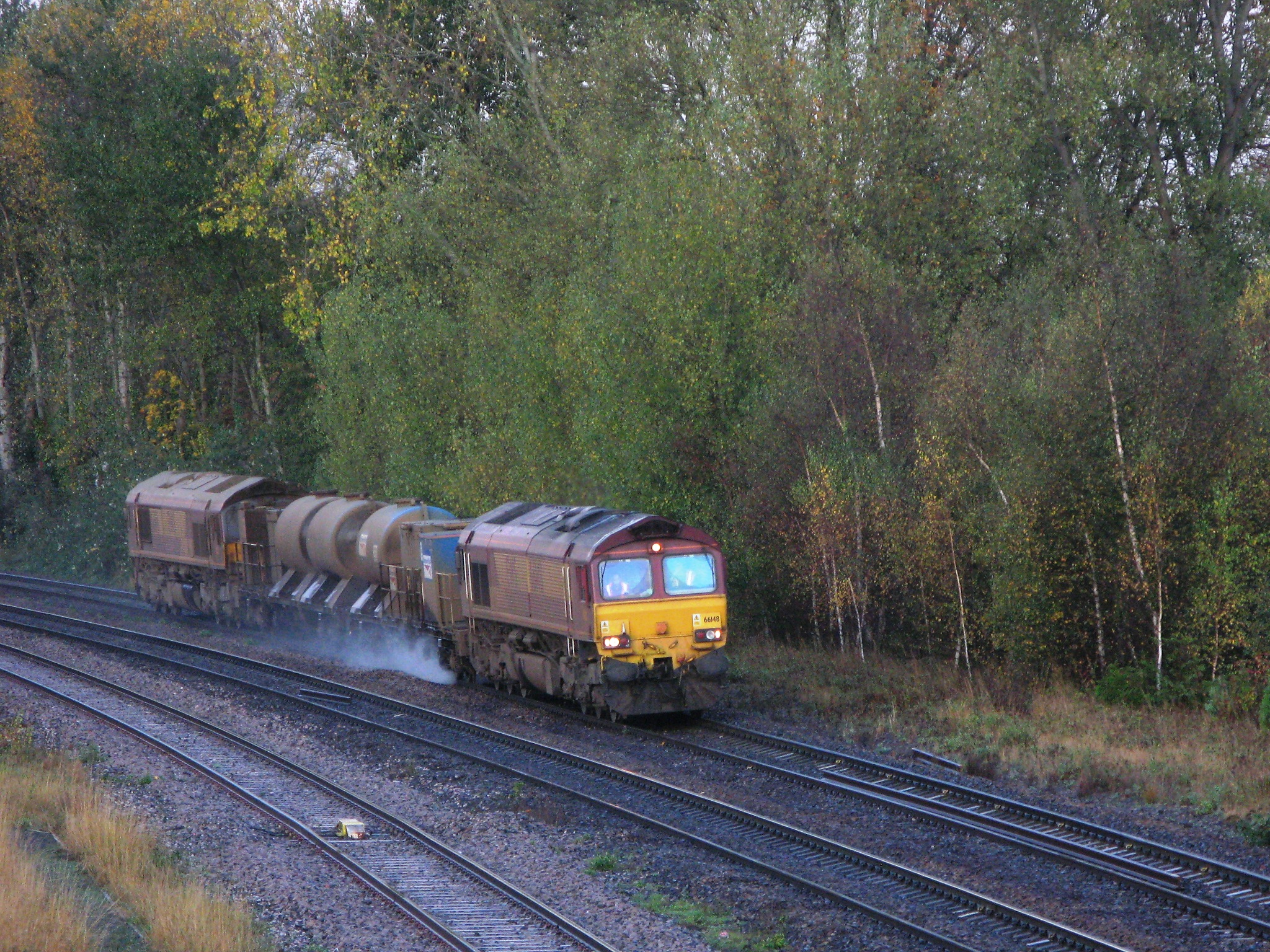 A Network Rail morning "leaf buster" train uses high-pressure water jets to clear fallen leaves from the line on the approach to Taunton station in Somerset, England. The train is headed by DB Schenker's 66148, and 66116 is tailing, to provide traction in case of the header loco slipping.